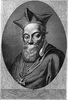 Jacques Du Perron (1556-1618), French cardinal and writer.